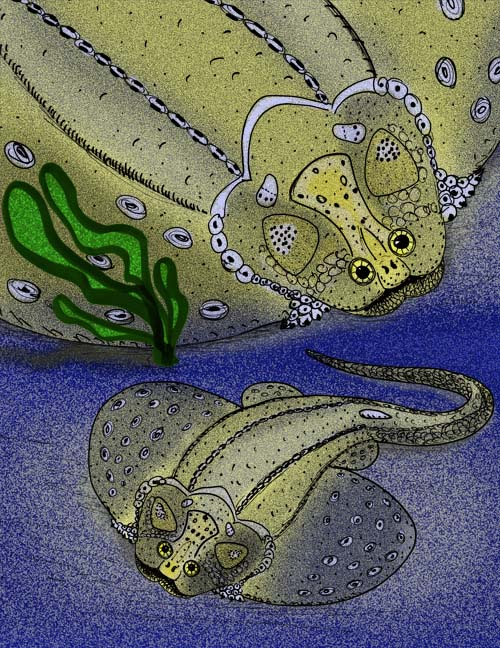 User:Apokryltaros reconstruction of the rhenanid placoderm Gemuendina stuertzi, of Devonian Hunsrück.